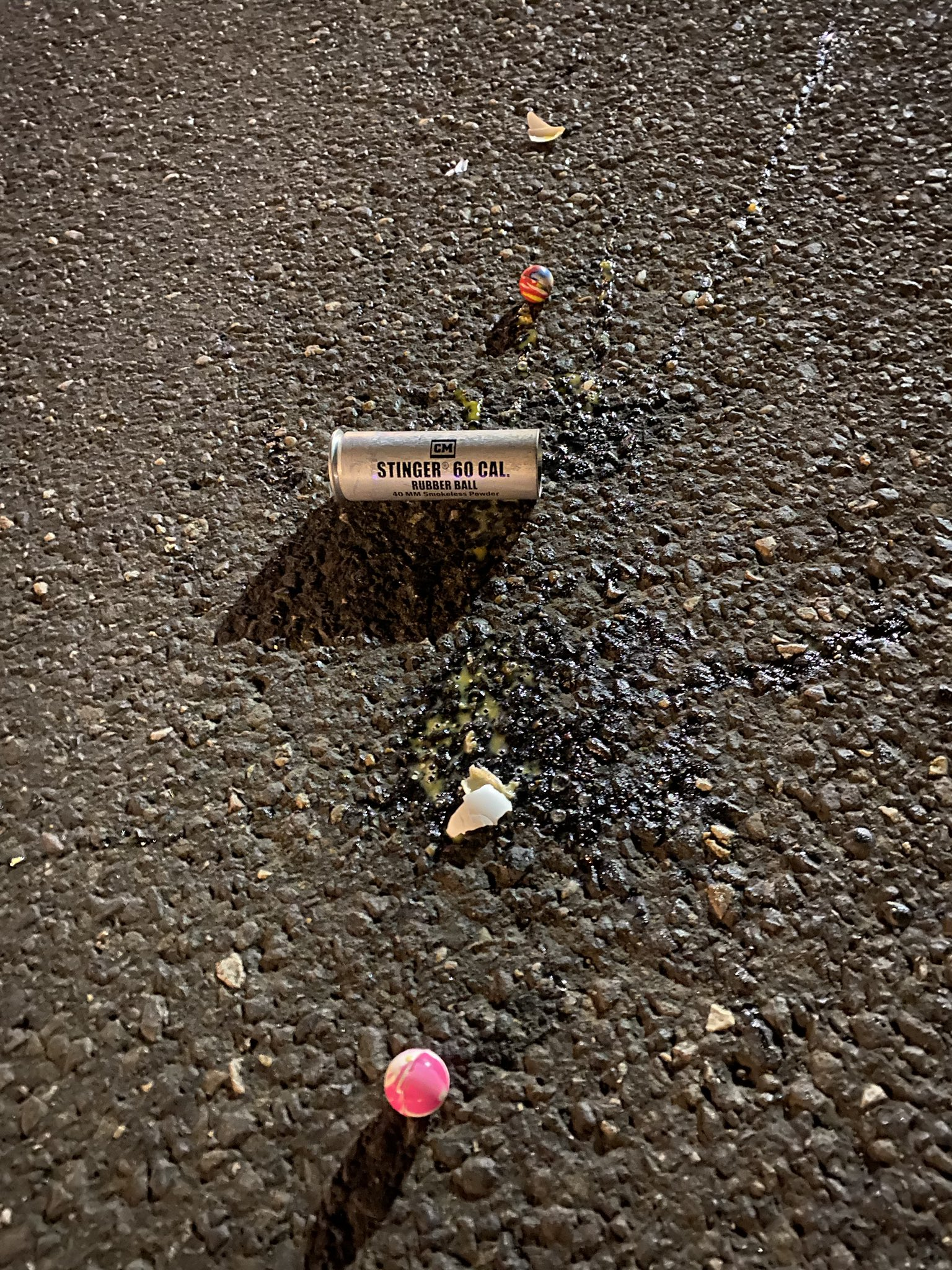 A Safariland/Defense Technology less-lethal shot. Shot by federal officers protecting the property of the Portland Field Office of DHS/ICE on the night of Aug 26 2020 against protesters of police violence during the George Floyd protests in Portland, Oregon.